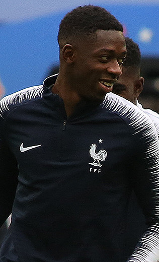 Dembélé training with France at the 2018 World Cup